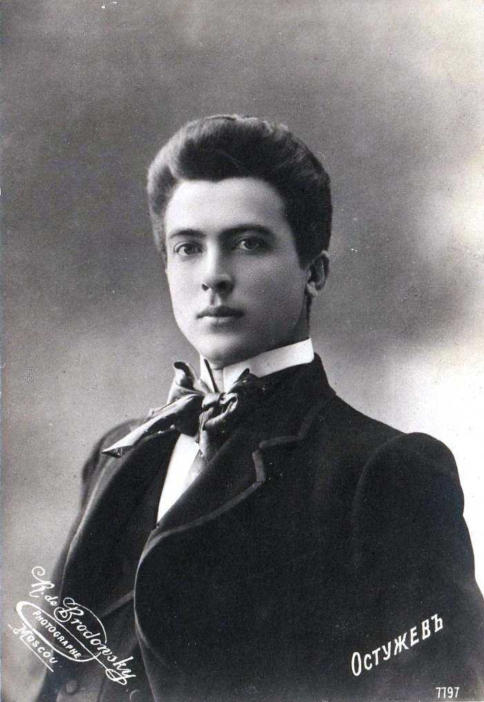 Actor Alexander Ostuzhev (1874-1953), 1900s. Ostuzhev completely lost hearing by 1910, so presumably category:Deaf people is relevant.